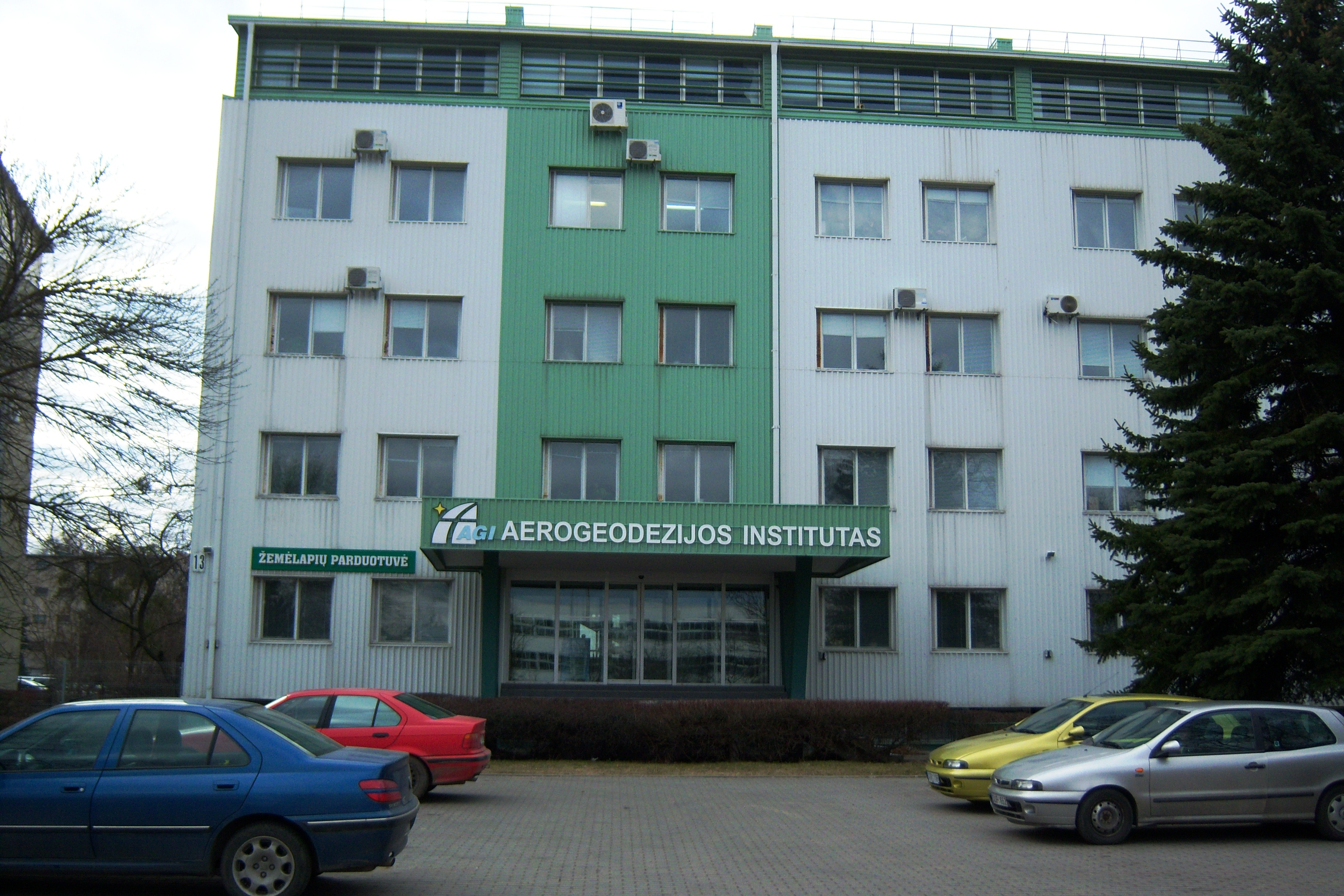 Joint stock company "Institute of Aerial Geodesy" building in Kaunas, Lithuania